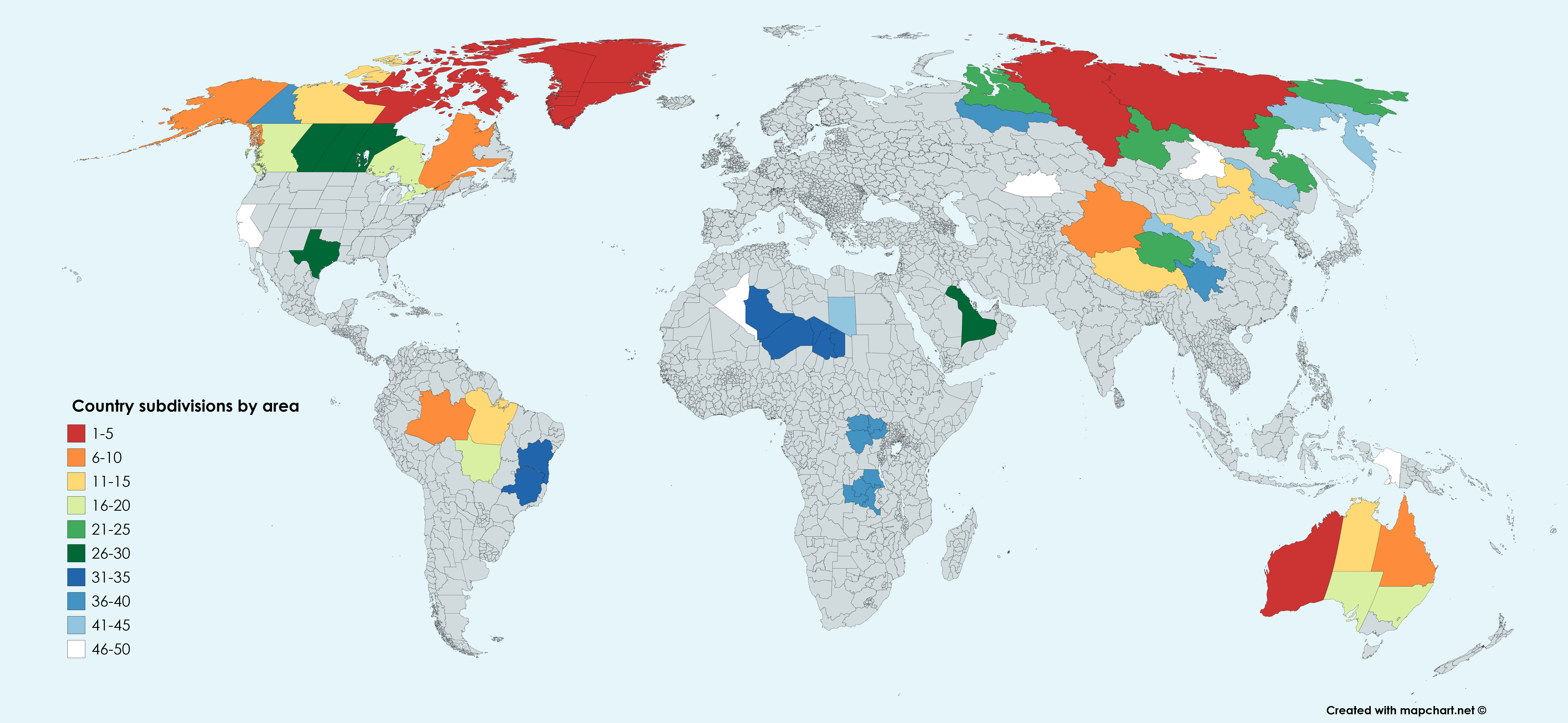 The top 50 of country subdivisions by area, based on